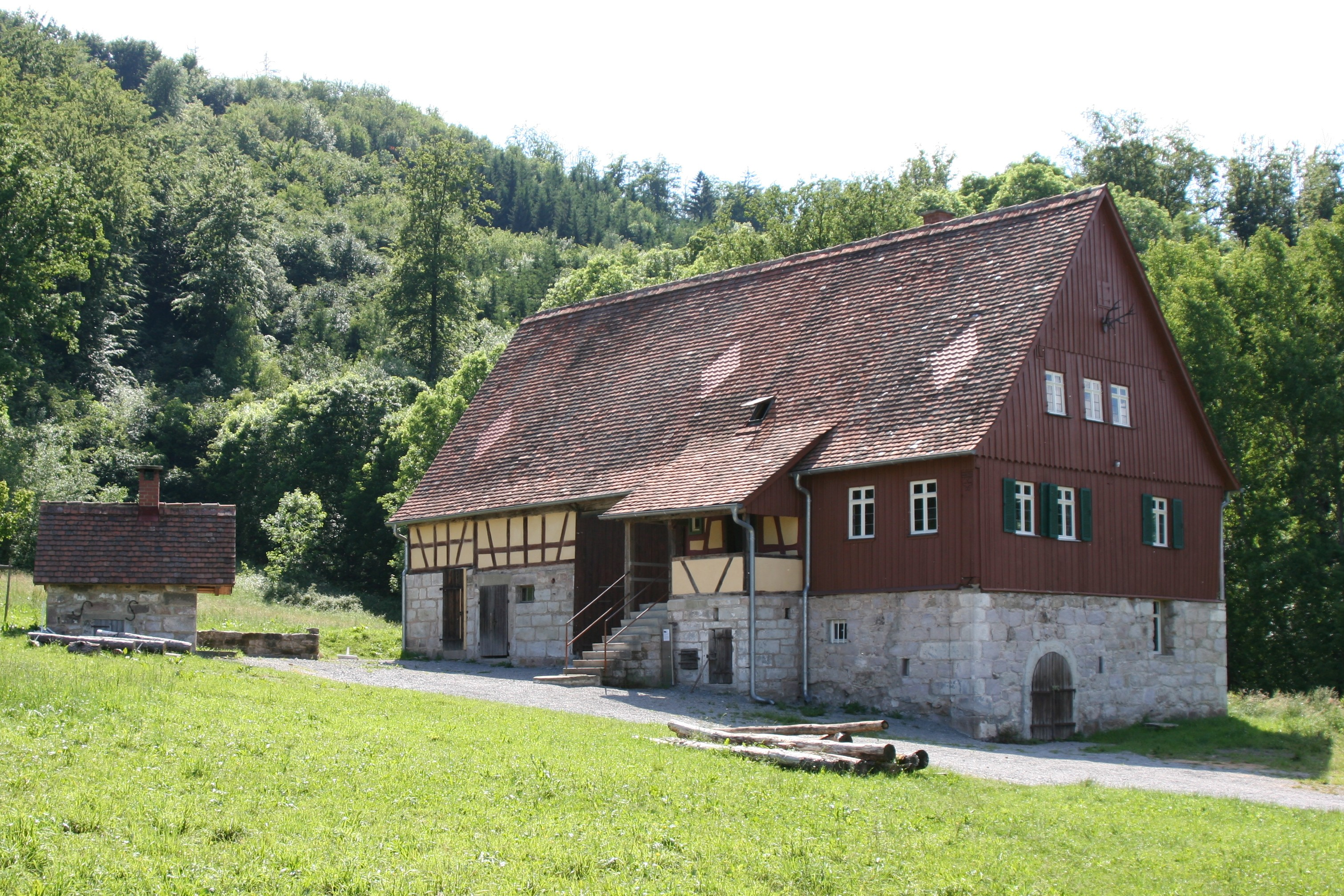 The Joachimstal forester's house in the Open Air Museum Wackershofen